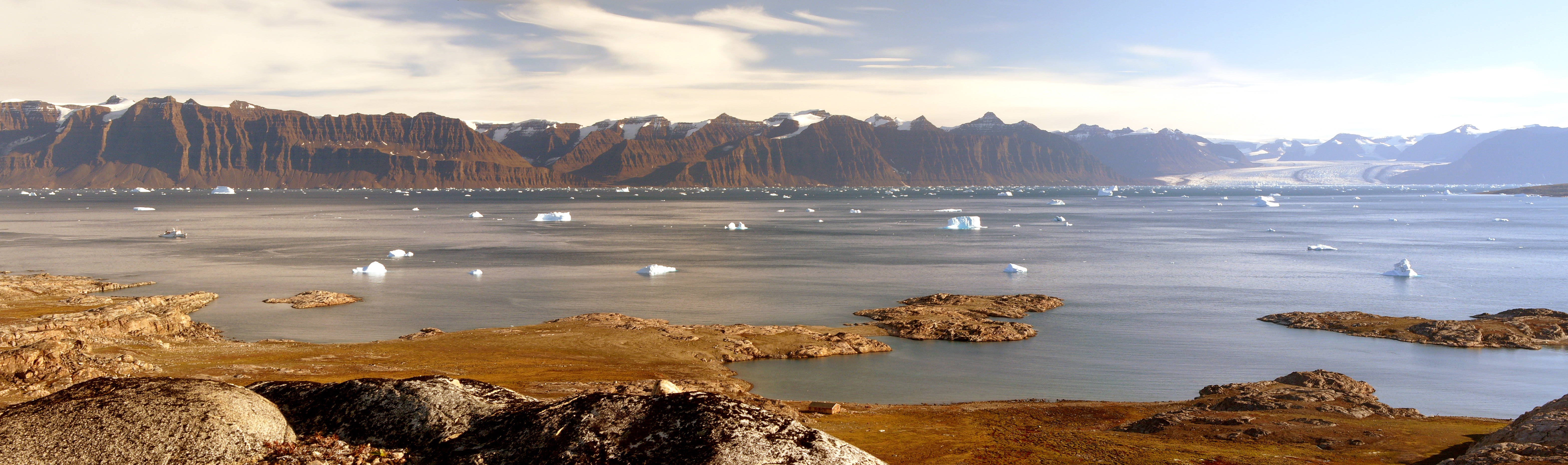 View on Scoresby Sund, East Greenland